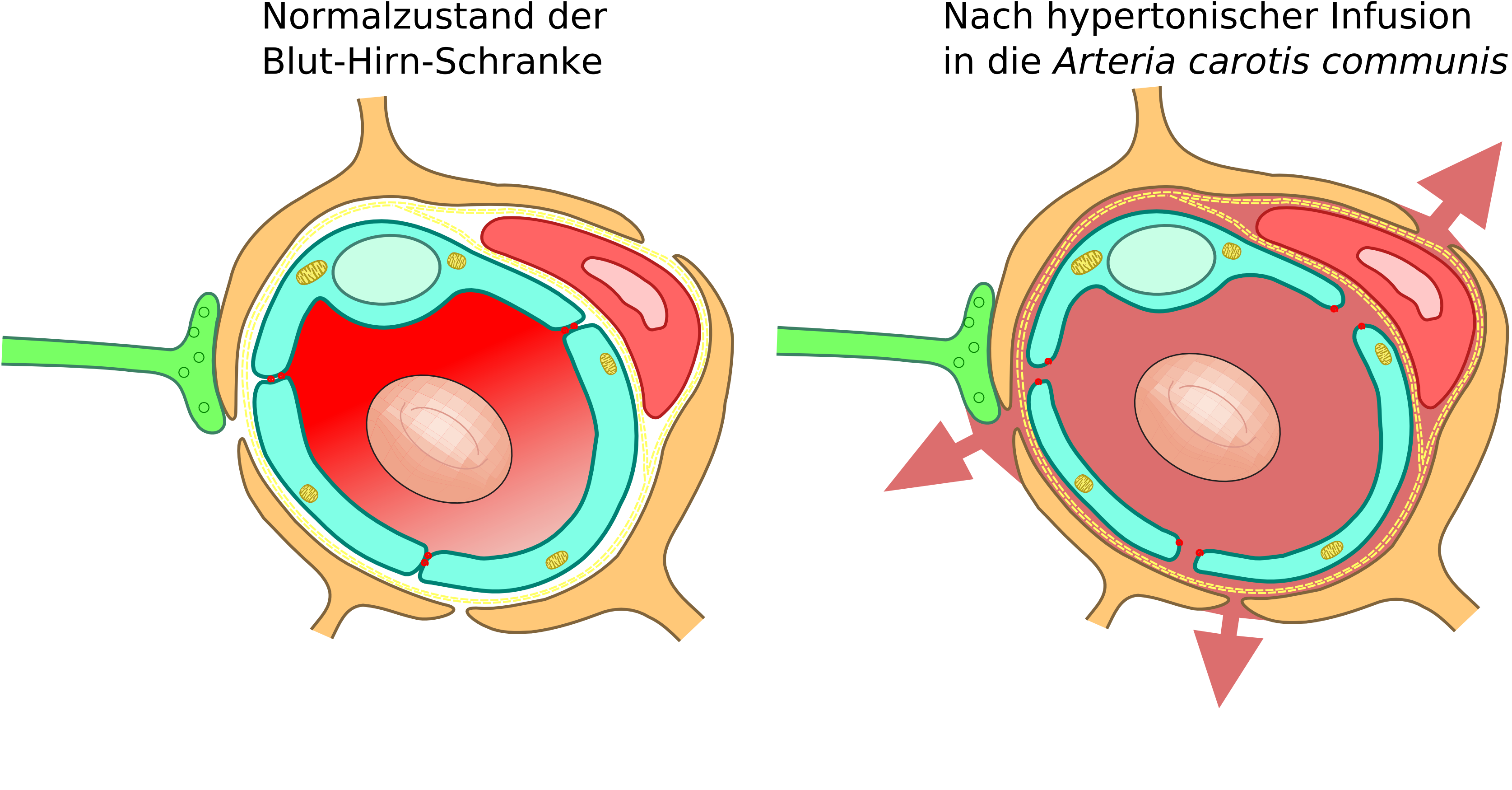 Schematic sketch showing the effect of hyperosmotic treatment of the blood-brain barrier.